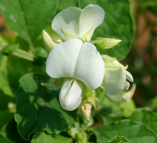 Crotalaria verrucosa (syn. C. angulosa)- white-flowered (infrequent) form- Blue Rattlepod, Purple popbush, Shack-shack, Tooth-leaf rattlepod, blue-flower rattlepod • Hindi: झुनझुनिया Jhunjhunnia • Marathi: सागर ताग Sagar tag, Ghagari • Tamil: Gilugiluppai • Telugu: Ghelegherinta • Kannada: Gijigiji gida • Bengali: Bansan • Konkani: Kilukiluppai • Sanskrit: Shanpushpi, Brihatapushpi- in Herbal Garden, in Rangareddy district of Andhra Pradesh, India.